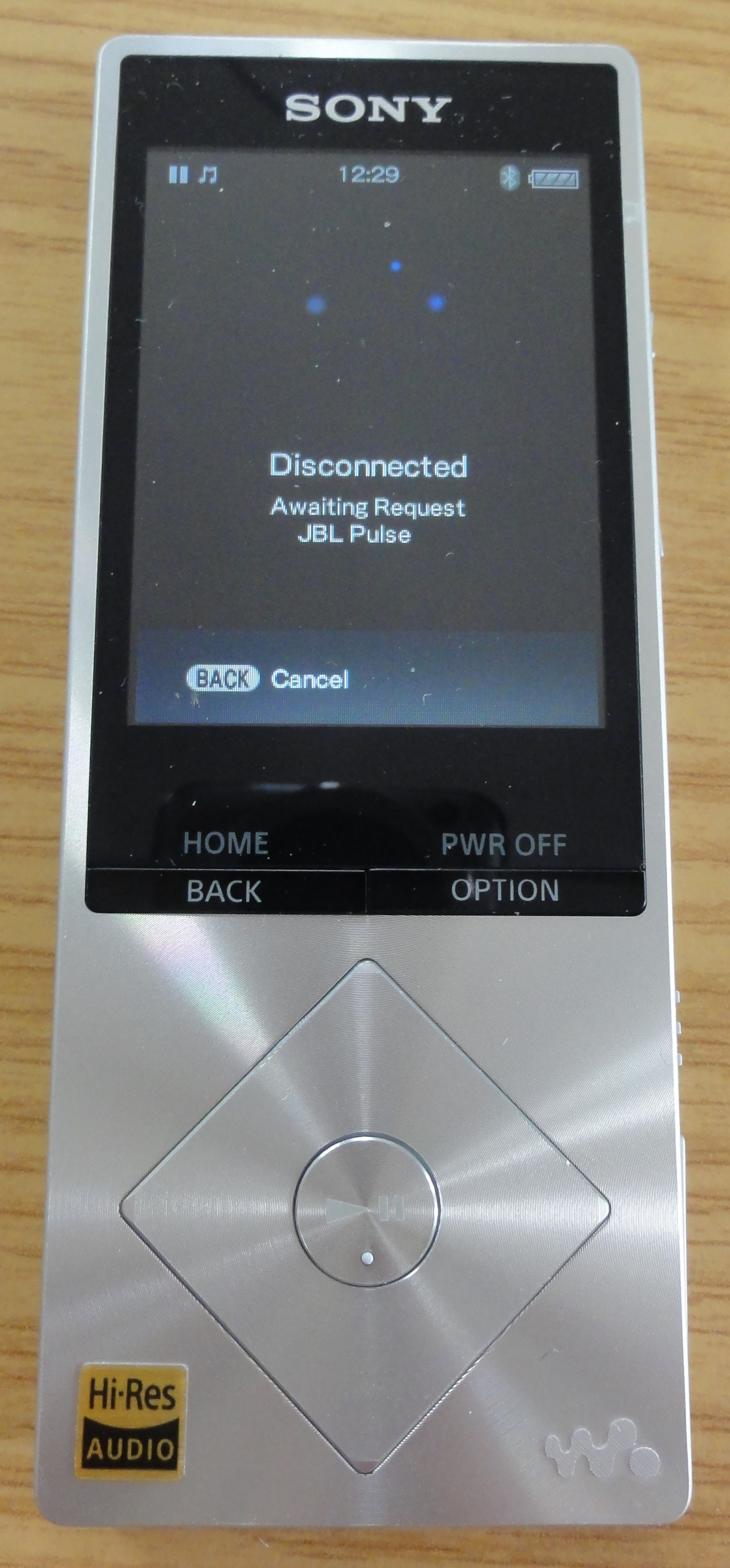 Premium portable digital audio player S-Master HX Digitalverstärker DSEE HX Upscaling 16-Gigabyte-Flashspeicher (erweiterbar per microSD-Karte) 2,2-Zoll-Display mit einer Auflösung von 320 x 240 Pixeln Abmessungen: 44,4 x 109,1 x 9,1 Millimeter Gewicht: 66 Gramm kompatible Musikformate: MP3, WAV, AIFF, WMA, AAC, HE-ACC, FLAC, ALAC Drahtlos: Bluetooth (inklusive aptX), NFC Akkulaufzeit: zwischen 30 und 50 Stunden Anschlüsse: USB (über Spezialstecker), microSD-Karten, Kopfhörer Tasten: An/Aus, Navigationswippe, Tastensperre, Lautstärkewippe Sonstiges: Radio (UKW) Kaufdatum: Febr. 2015